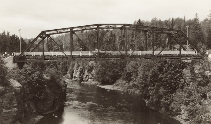 The bridge over the Pigeon River carrying Highway 61. The bridge was constructed in 1930 and replaced by the current bridge in 1964.